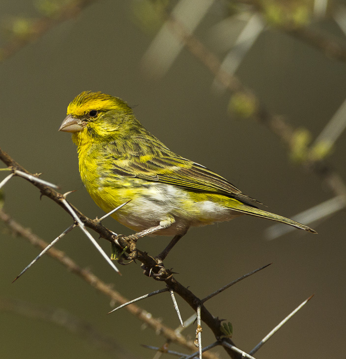 White-bellied Canary - Samburu - Kenya_S4E5349